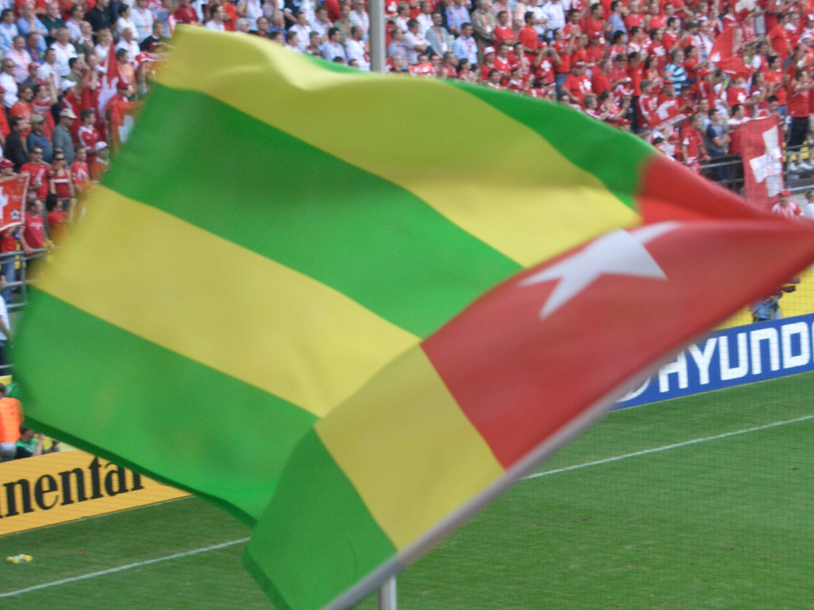 Togo flag at Soccer World championship in Germany 2006